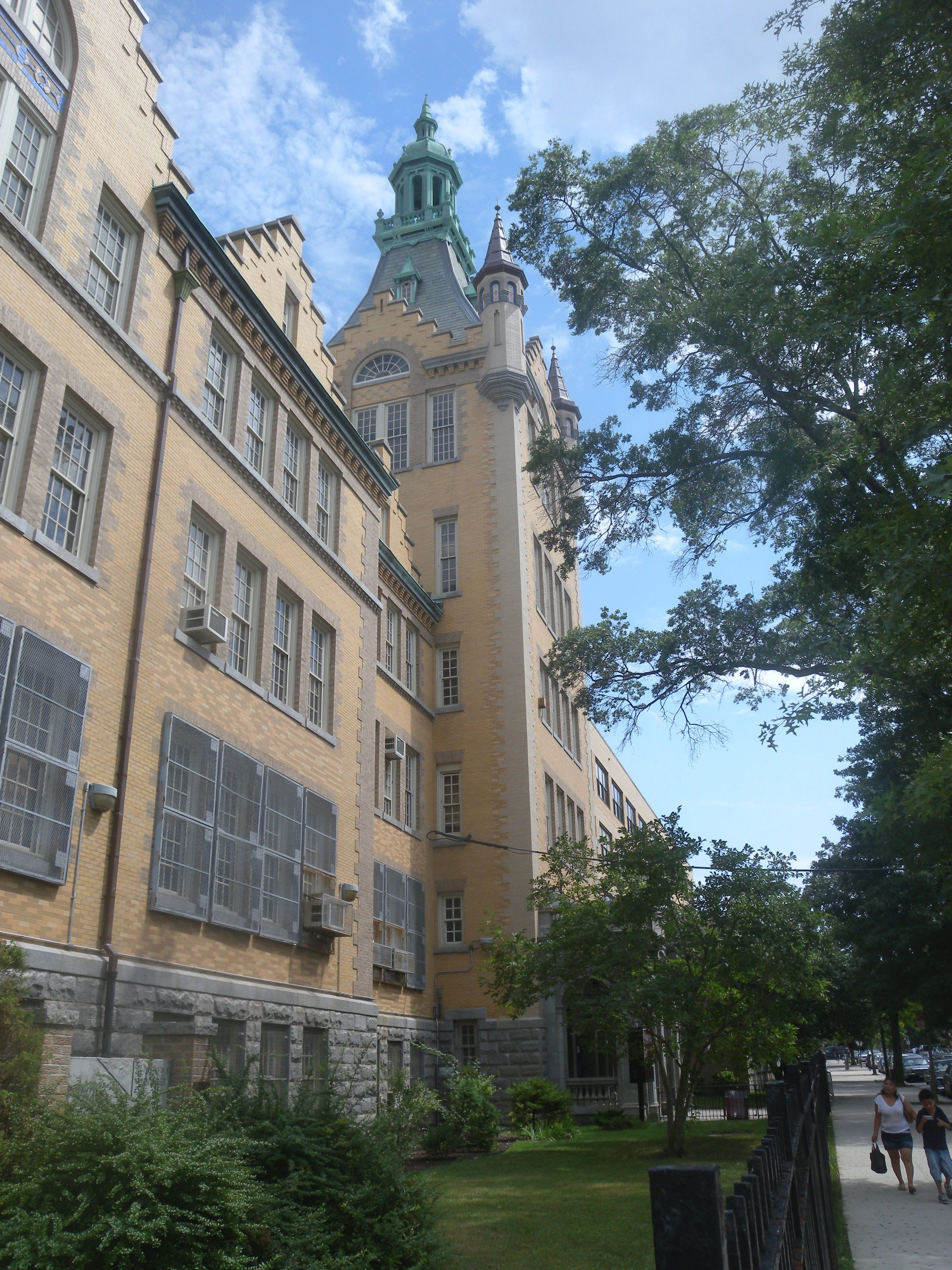 Looking south at Newtown High on a partly sunny afternoon.